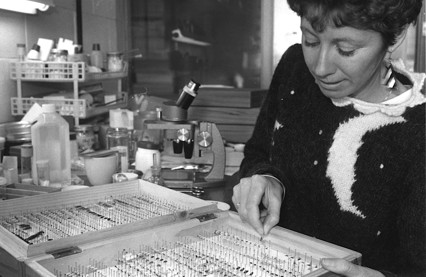 Carol Muir, curator of the Lincoln University Research Museum in the 1980s. From a collection of staff photos kept by the Lincoln University Entomology Department.